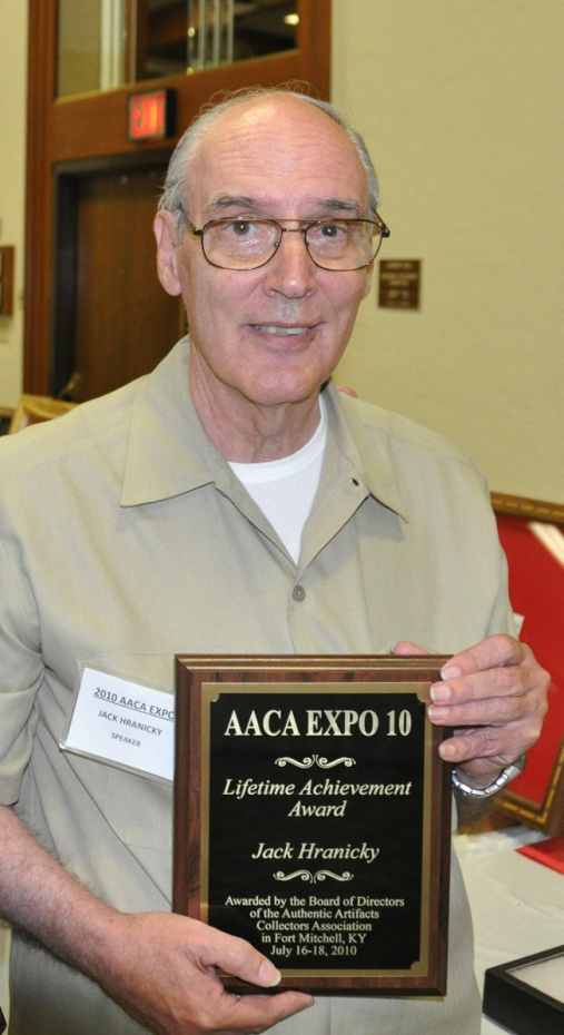 Jack Hranicky is a Registered Professional Archaeologist (RPA) mainly in the Paleo-Indian period.